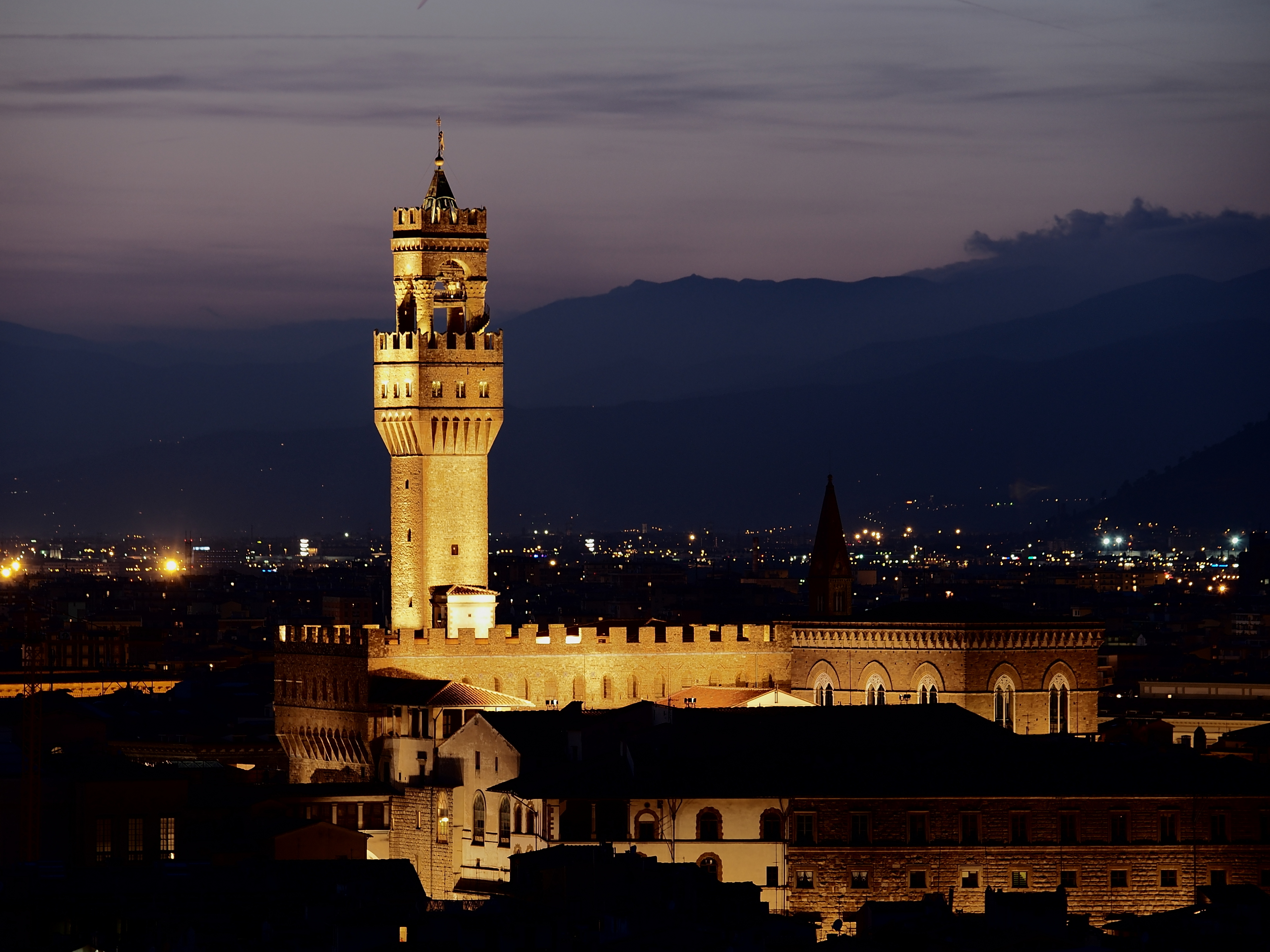 Palazzo Vecchio. Nigth view from Michelangelo hill, Florence, Italy.